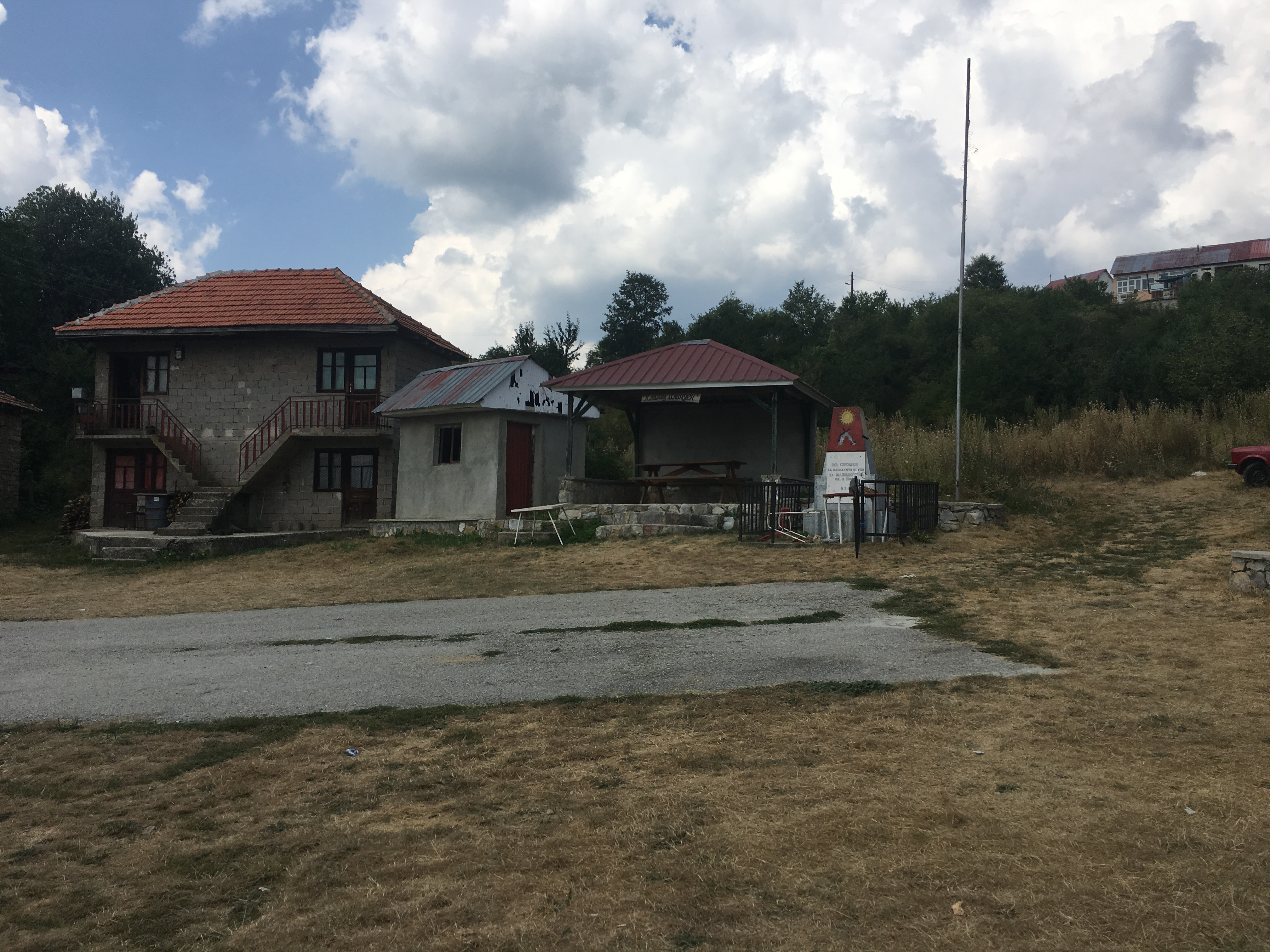 Ilinden Square in the village of Plaḱe